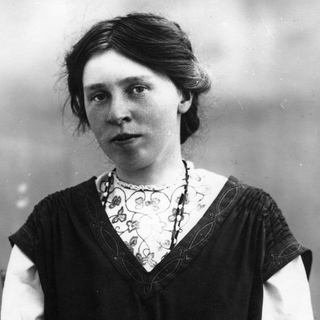 Suffragette Millicent Browne 1909 by Linley Blathwayt - date guessed